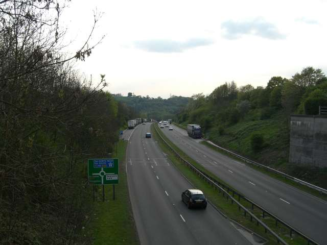 A500 looking towards M6 J15